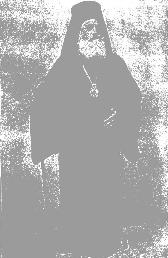 Porphyrius of Varna